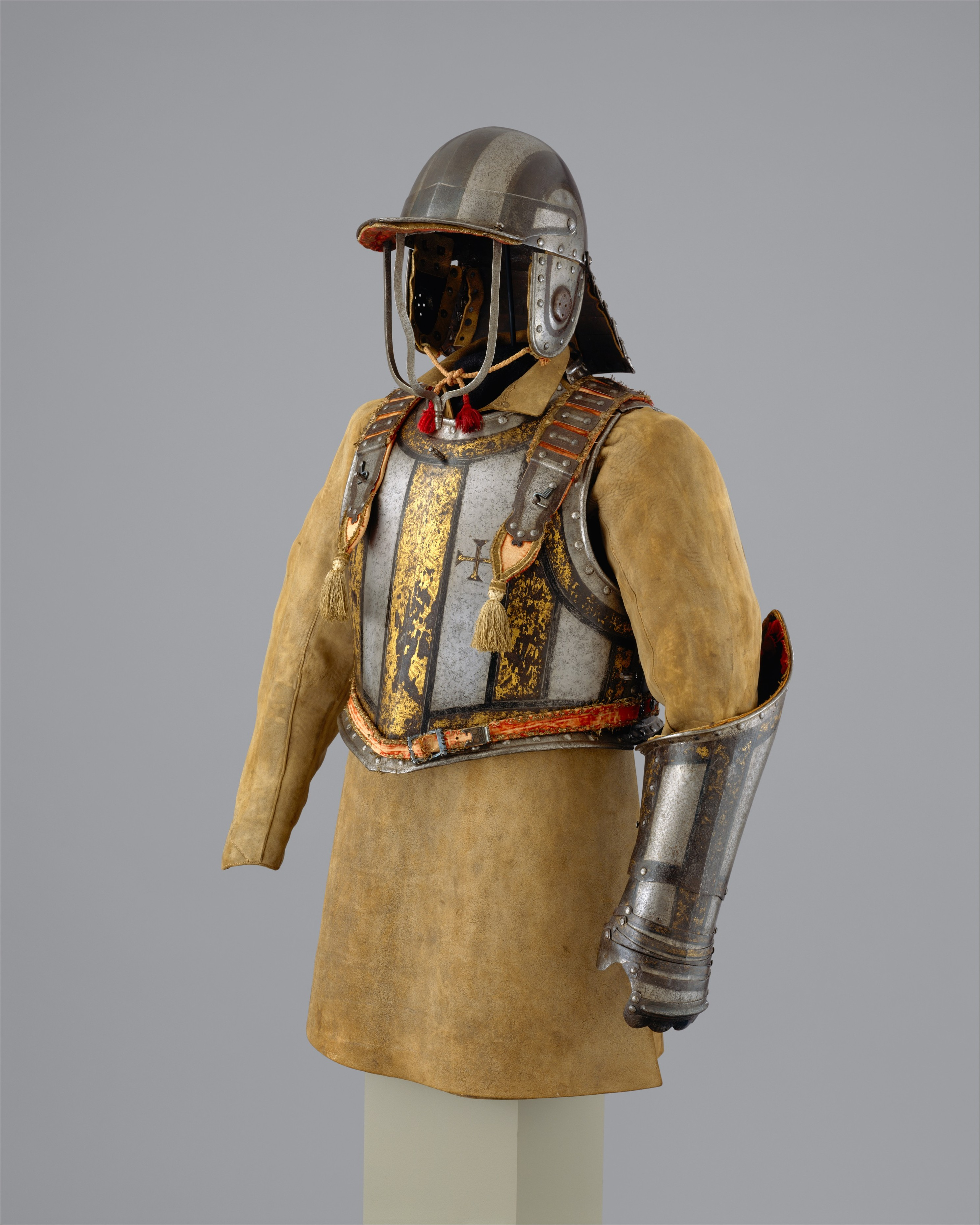 British, London; buff coat, European; Harquebusier's armor with buff coat; Armor for Man